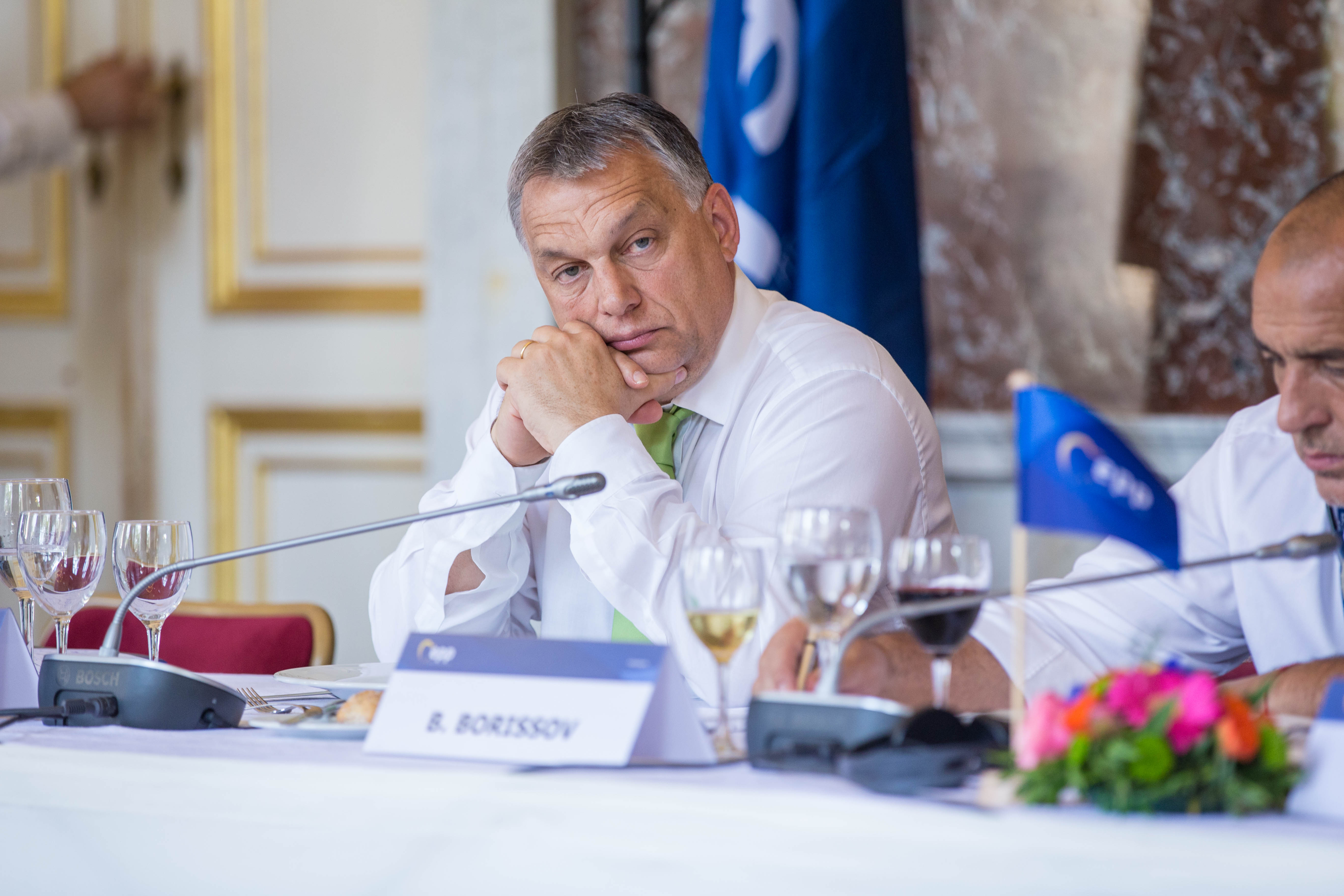 European People's Party Summit in Brussels, June 2017.